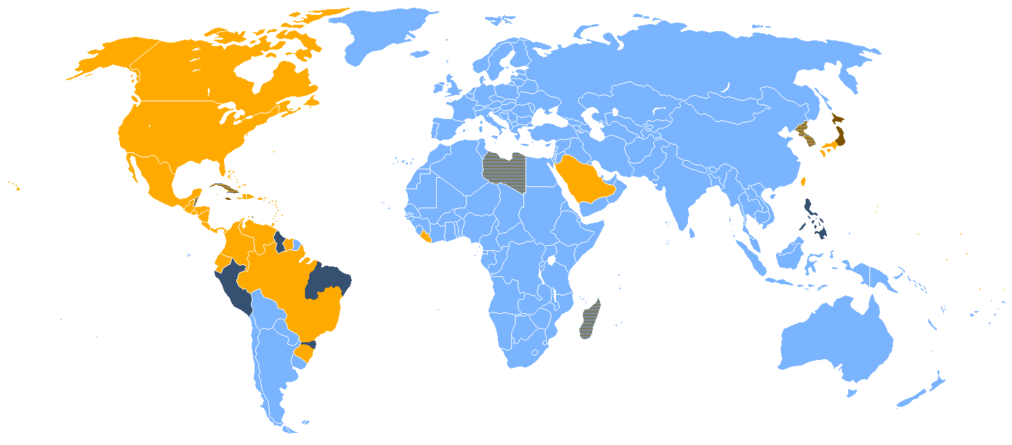 Map of the main voltages and frequencies systems in the world. Legend 220–240 V, 50 Hz 100–127 V, 60 Hz 220–240 V, 60 Hz 100–127 V, 50 Hz